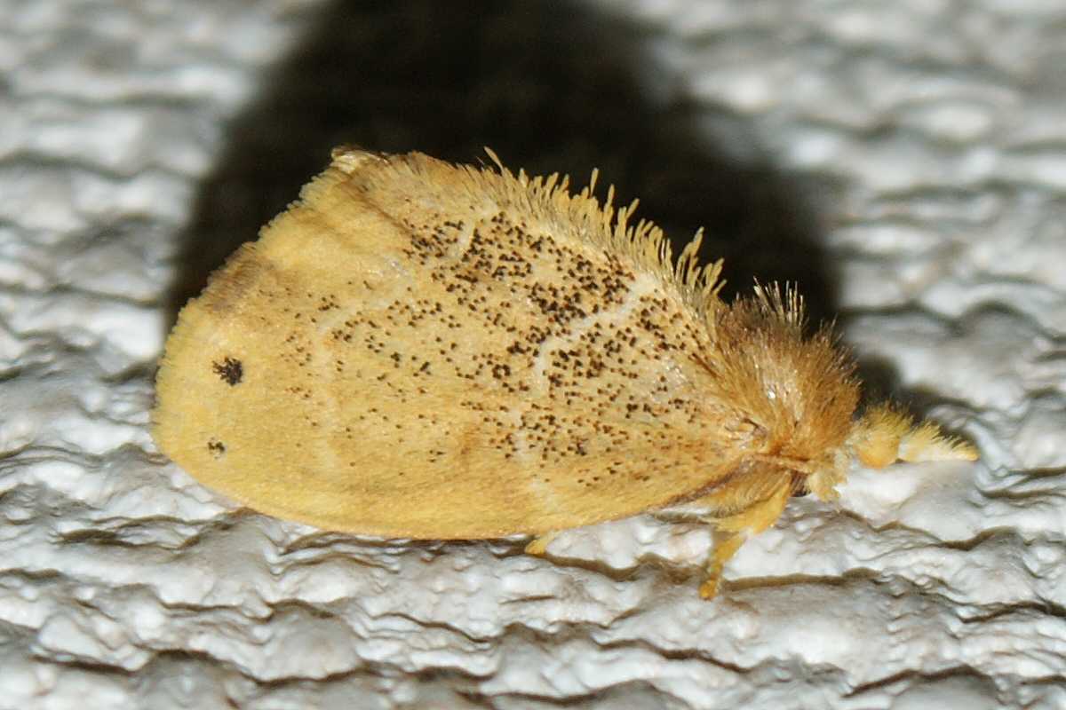 tea tussock moth、adult stage.